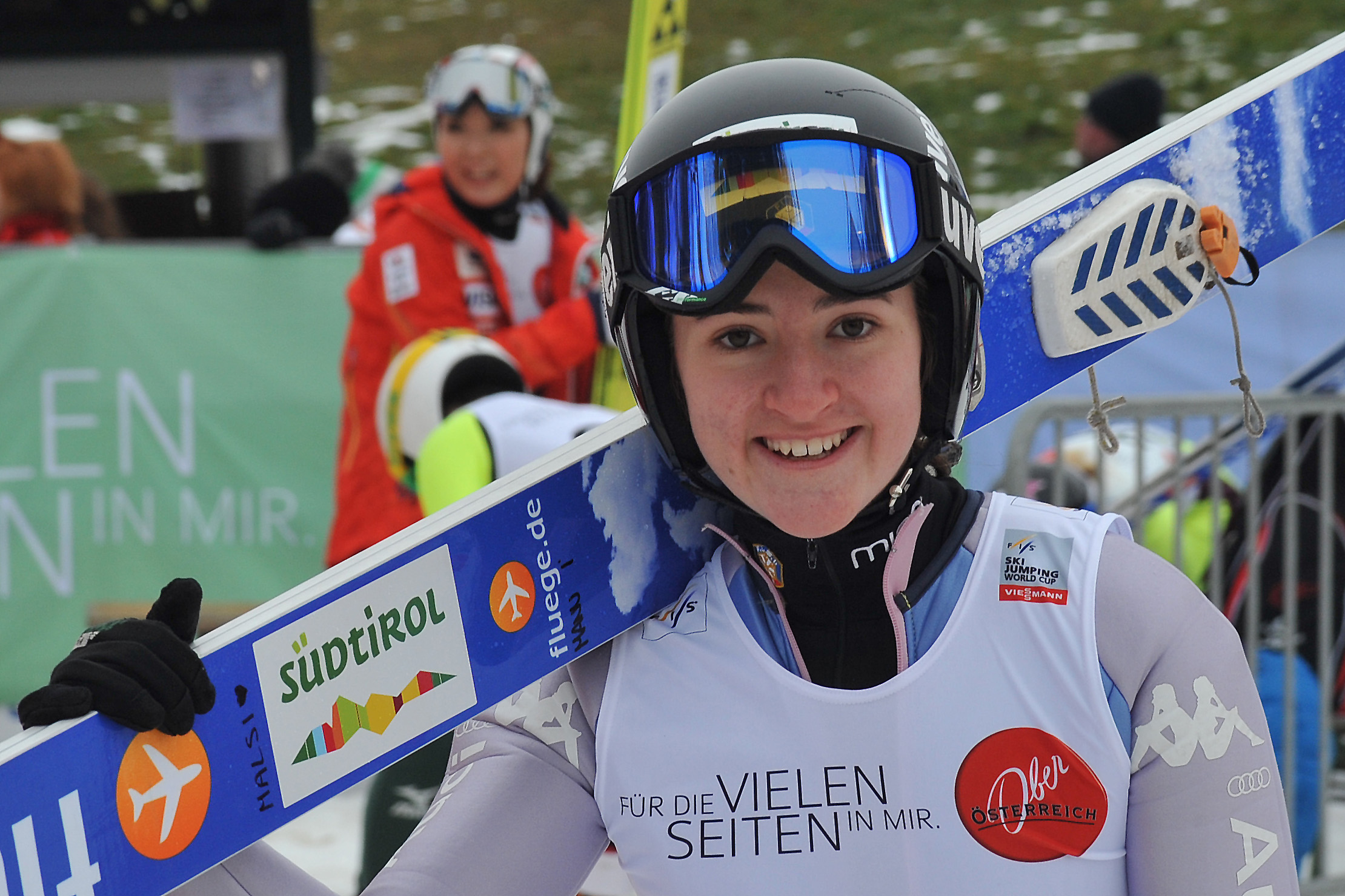 FIS Ski Jumping World Cup Ladies 14th World Cup Competition Normal Hill Individual Hinzenbach (AUT) Sun 2 Feb 2014: Manuela Malsiner